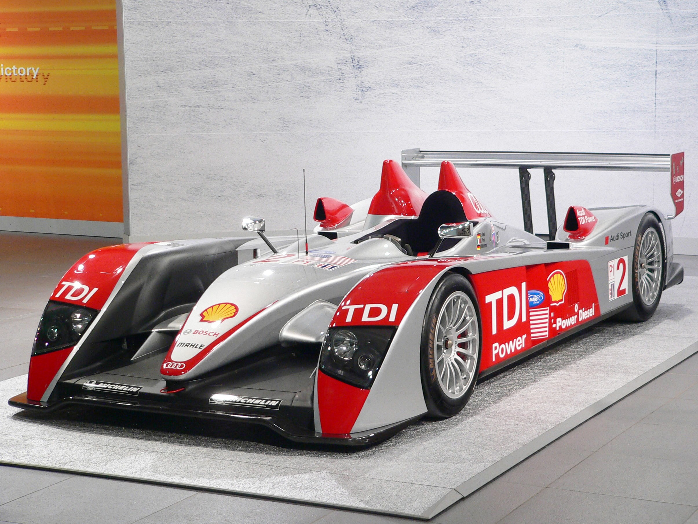 "Audi R10 TDI" at the Exhibition of historical vehicles in the Audi-Forum of the Audi AG in the City Neckarsulm/Germany